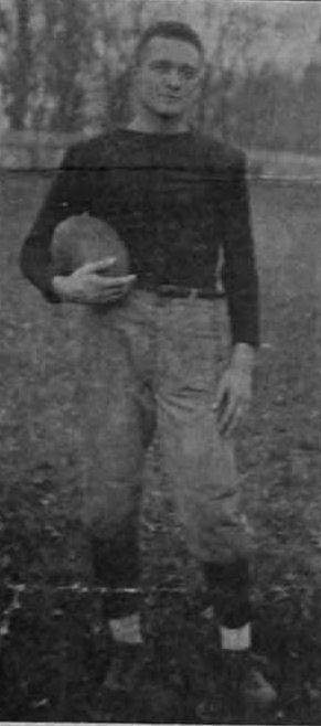 Photo of Marvin "Monk” Pierce while serving as captain of the 1915 Miami University football team.